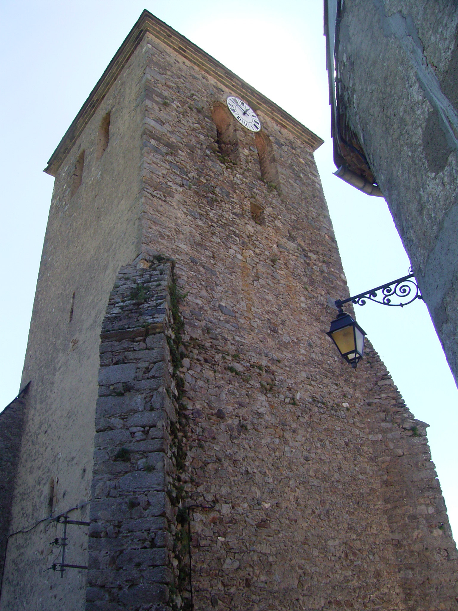 Laymone tower, Saissac, France